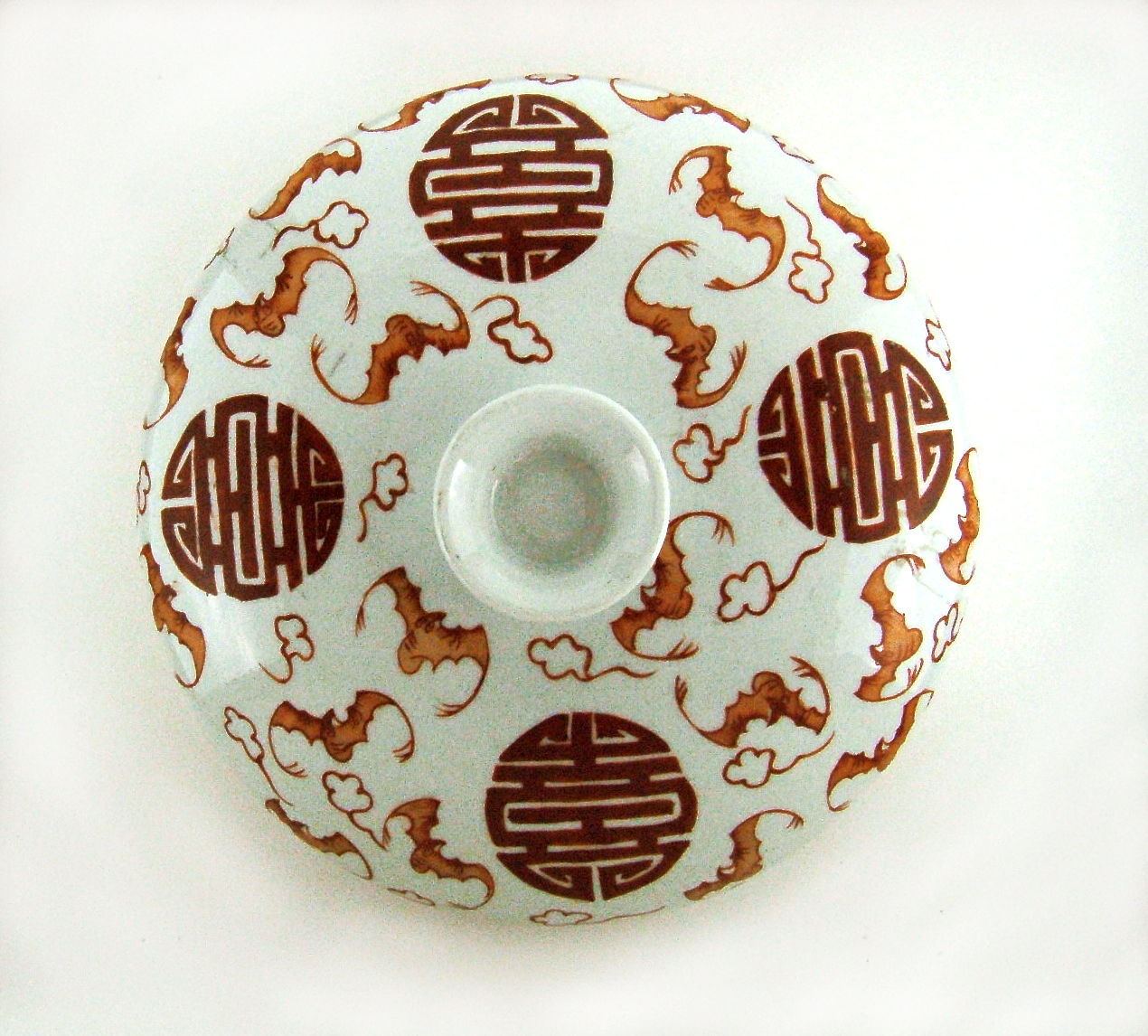 A covered ceramic dish with the Chinese character for longevity (shou) in a sea of flying red bats.